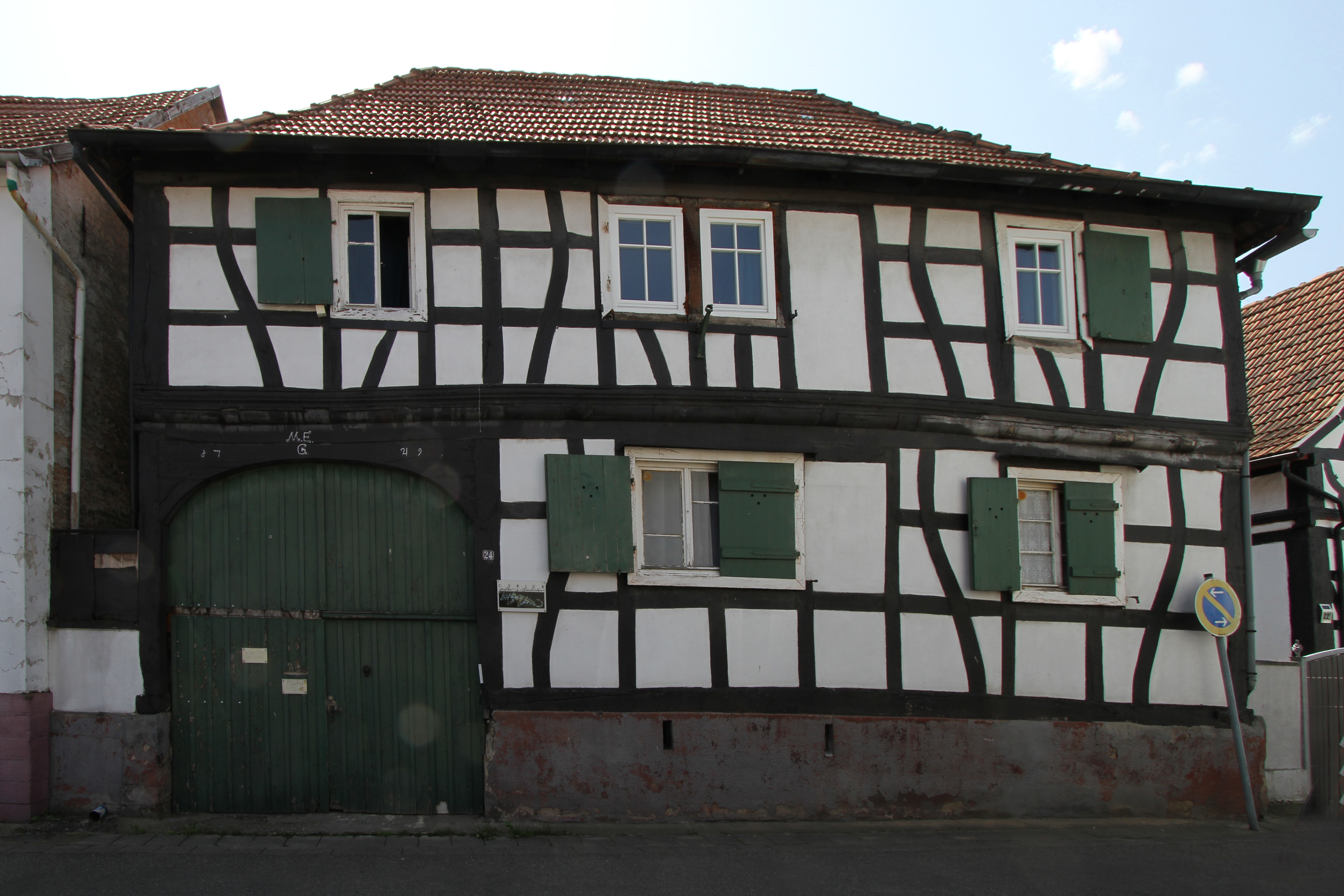 Cultural heritage monument in Hagenbach